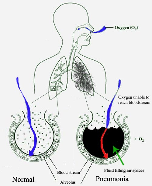 Source taken from but heavily edited by me. All alterations by me donated to public domain.